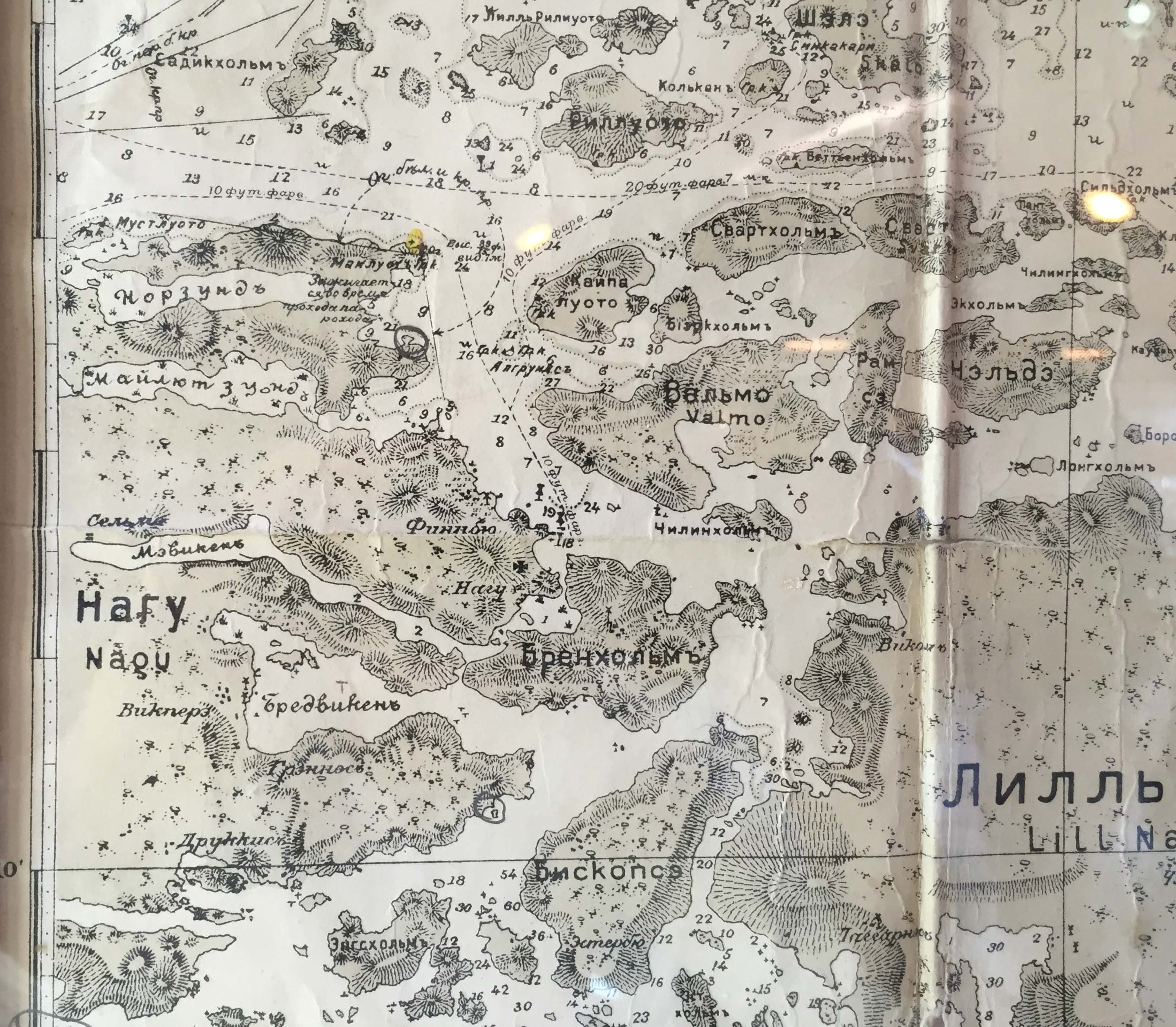 Russian map of centre of Nagu